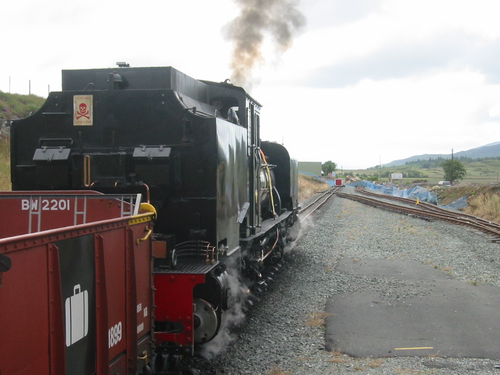 Photograph by vanoord